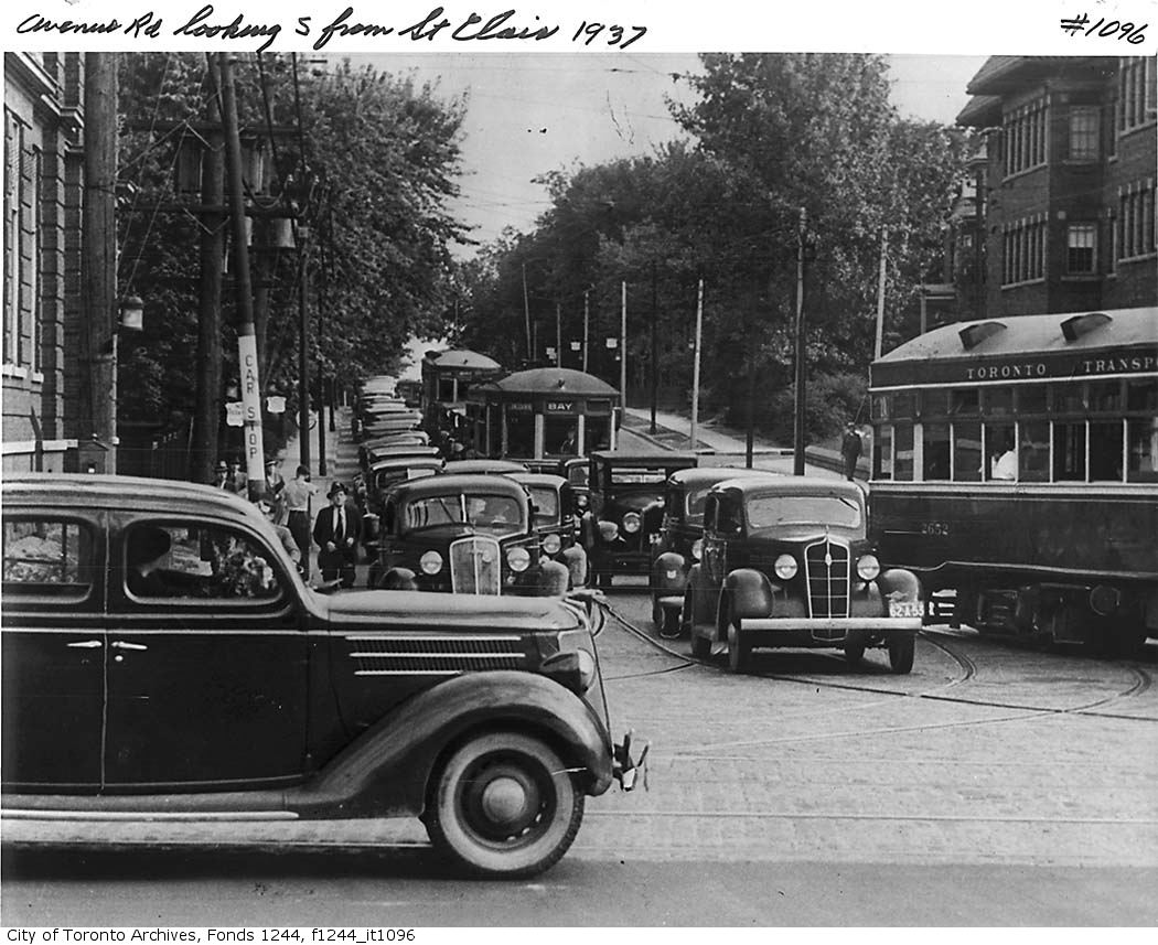 Avenue Road, looking south from St. Clair Avenue West, in Toronto, Ontario, Canada.